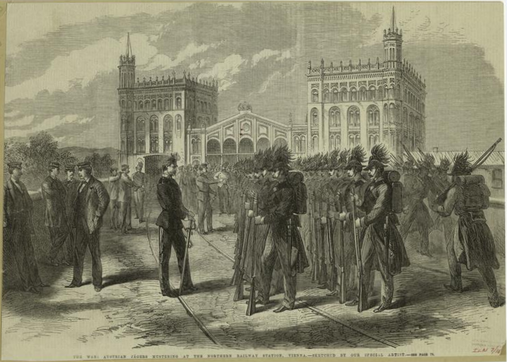 The war : Austrian jägers mustering at the northern railway station, Vienna.